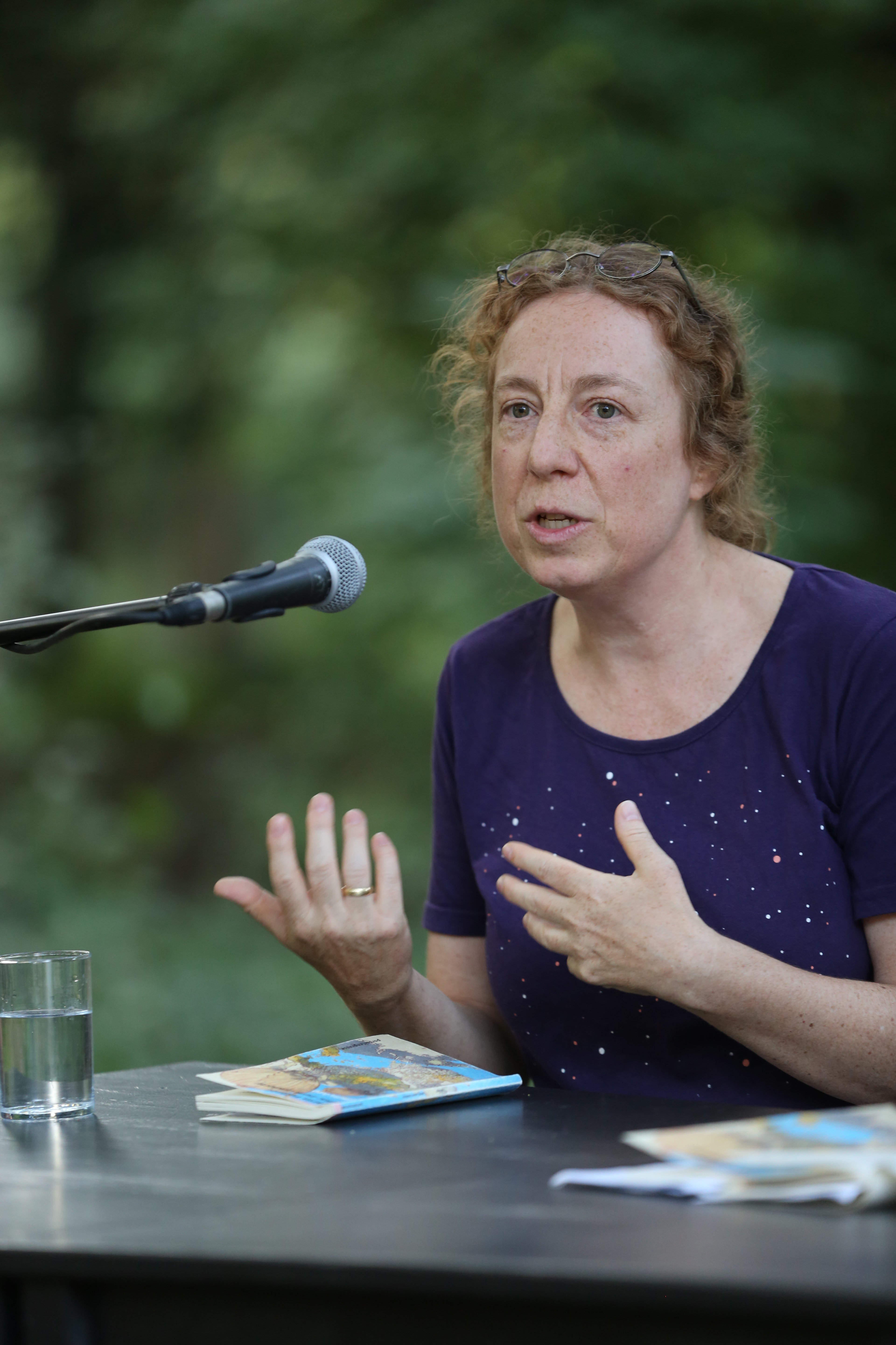 German poet Karin Fellner presents her new lyrics at literature festival "Erlanger Poetenfest" 2019